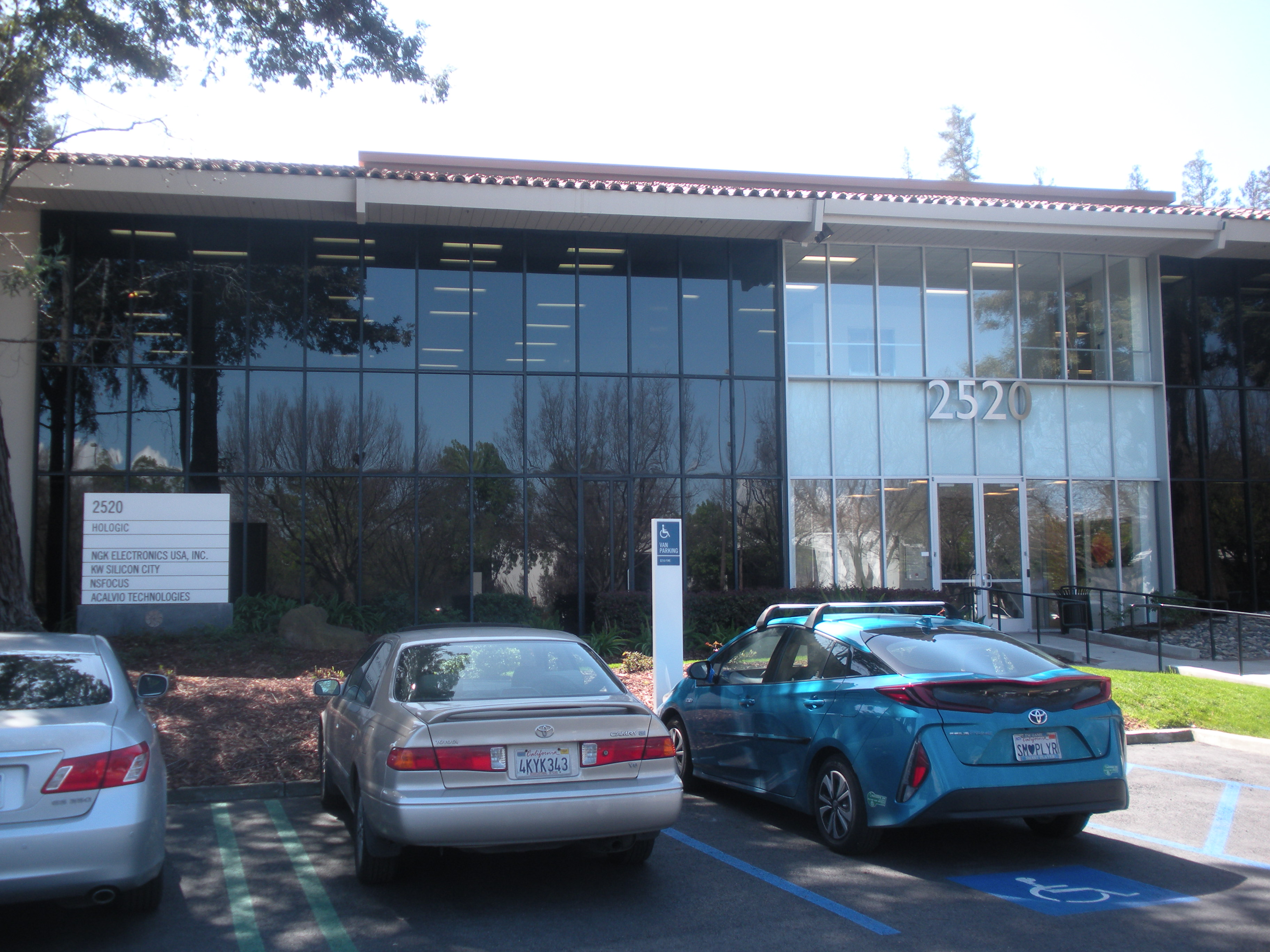 2520 Mission College Blvd in Santa Clara, California. Originally posted to my Flickr